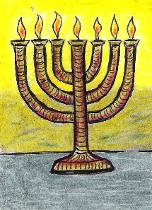 Menorah, the of the past and present. Menorah as symbol of a vision of the terrestrial sky: The view of the planets or errant stars visible to the naked eye. The symbol of the past refers to matinal Mercury, vesperal Mercury, matinal Venus, vesperal Venus, Mars, Jupiter and Saturn = "7" ("Seven"). The symbol of the present refers to Mercury, Venus, Mars, Jupiter, Saturn, Uranus and Neptune = 7 (Seven). (Without Pluto, the officially disqualified as planet by the International Astronomical Union on August 24, 2006).